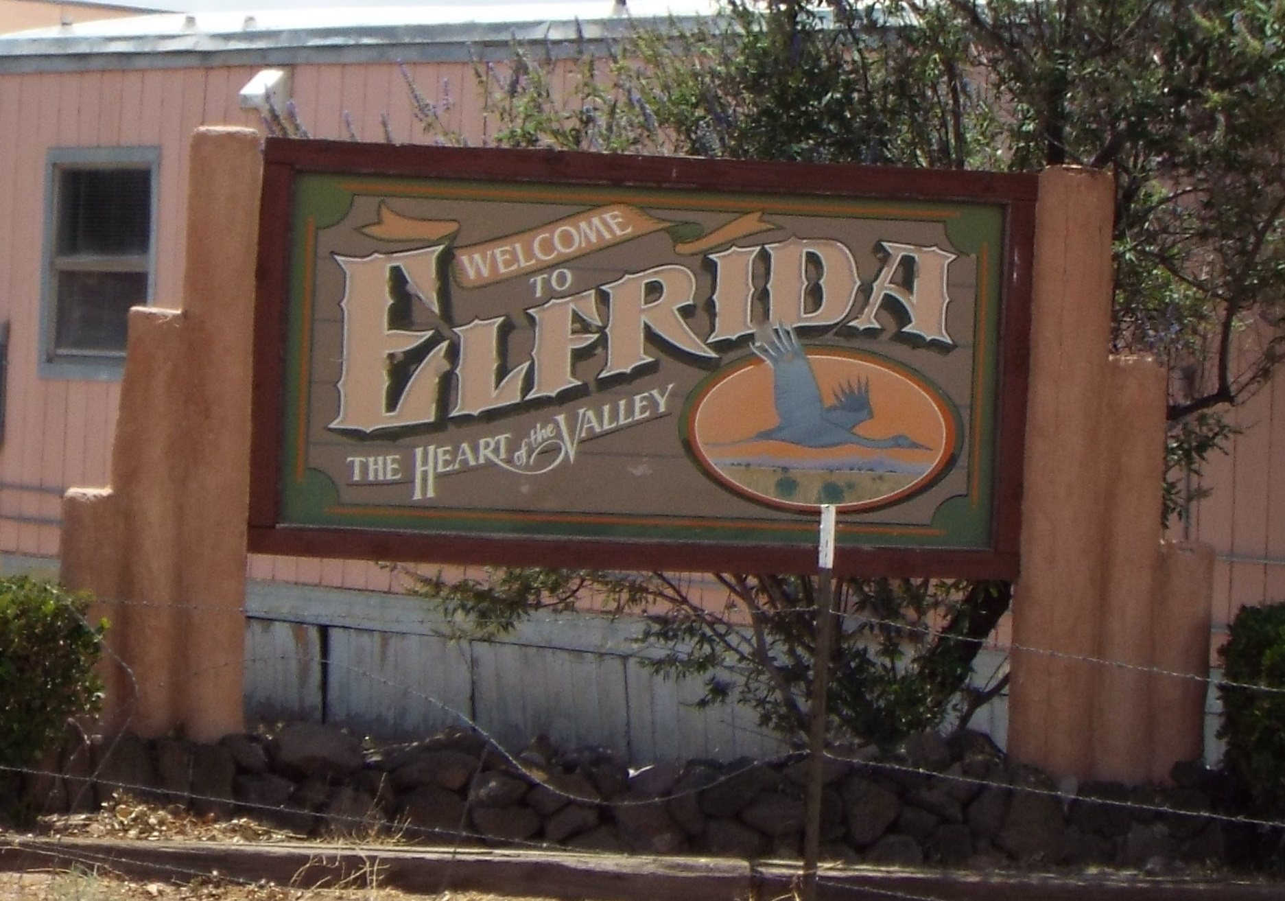 Welcome to Elfrida, Arizona sign